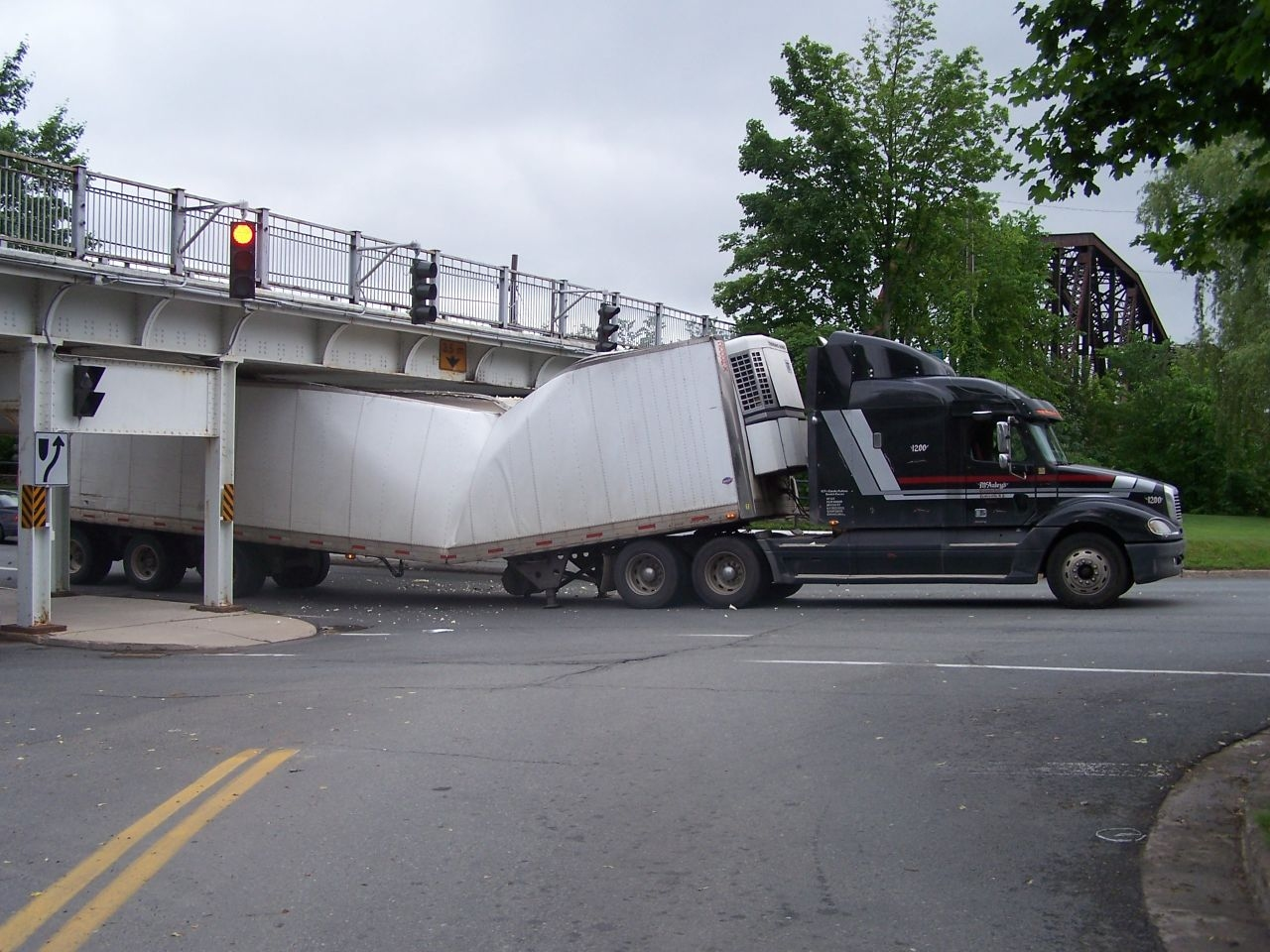 from flickr: "The road under this bridge curves upwards, which means longer vehicles can get stuck if they don't pay attention." The location is Waterloo row, Fredericton, New Brunswick